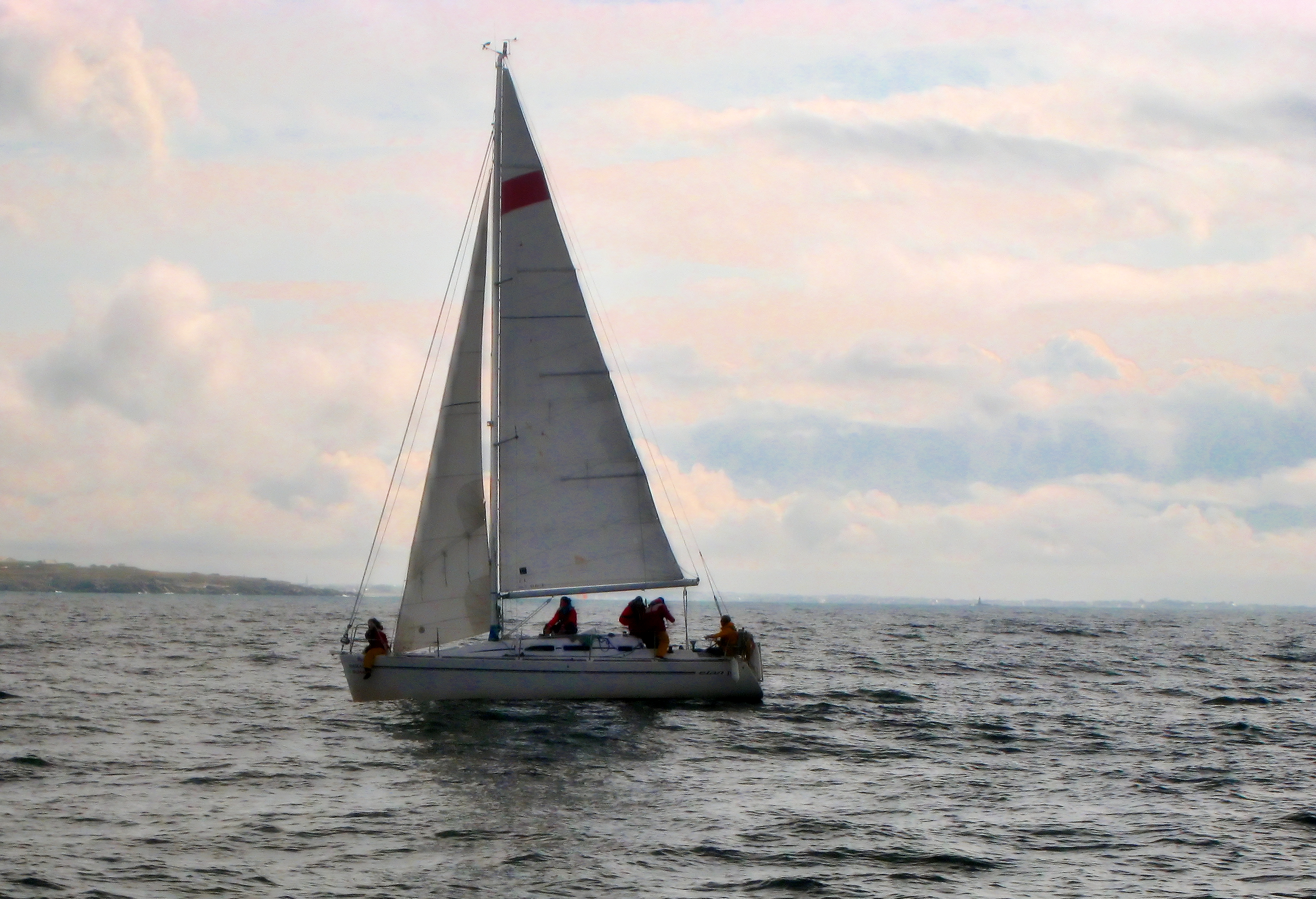 An Elan of the Glénans school with its foc on a removable forestay. South Brittany, 2008.